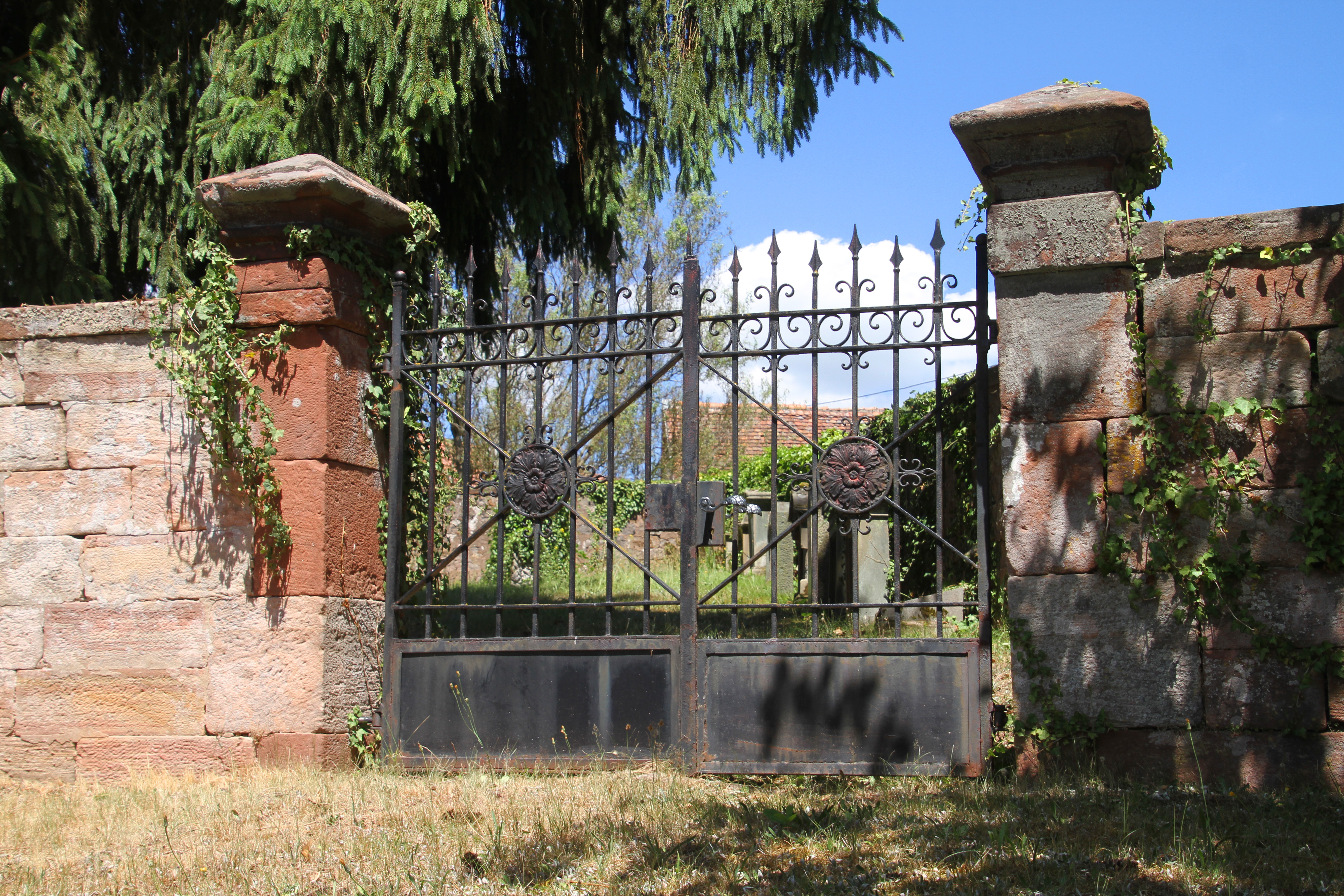 Jewish cemetery in Wallhalben, Rhineland-Palatinate.